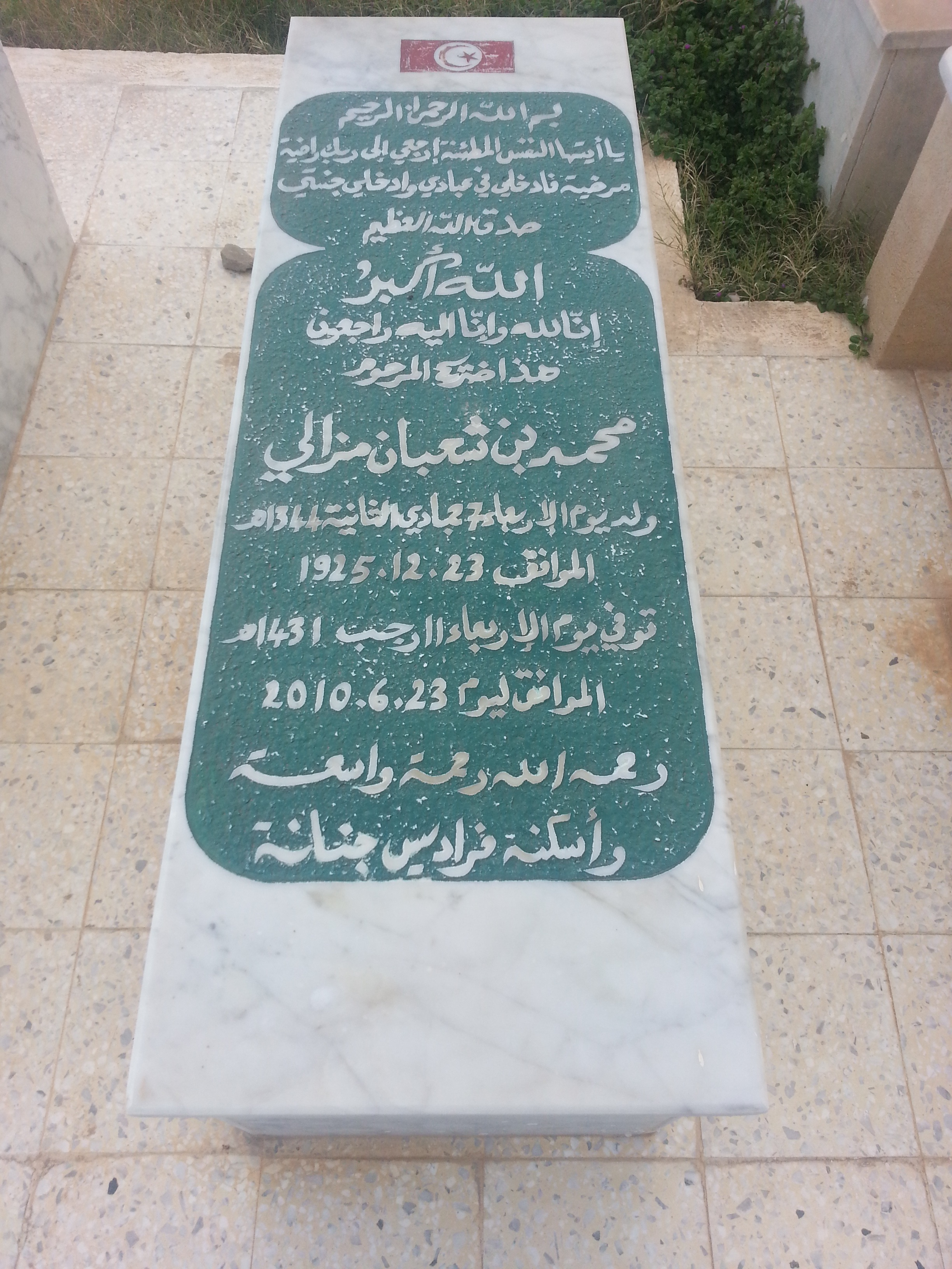 Mohamed Mzali Tomb